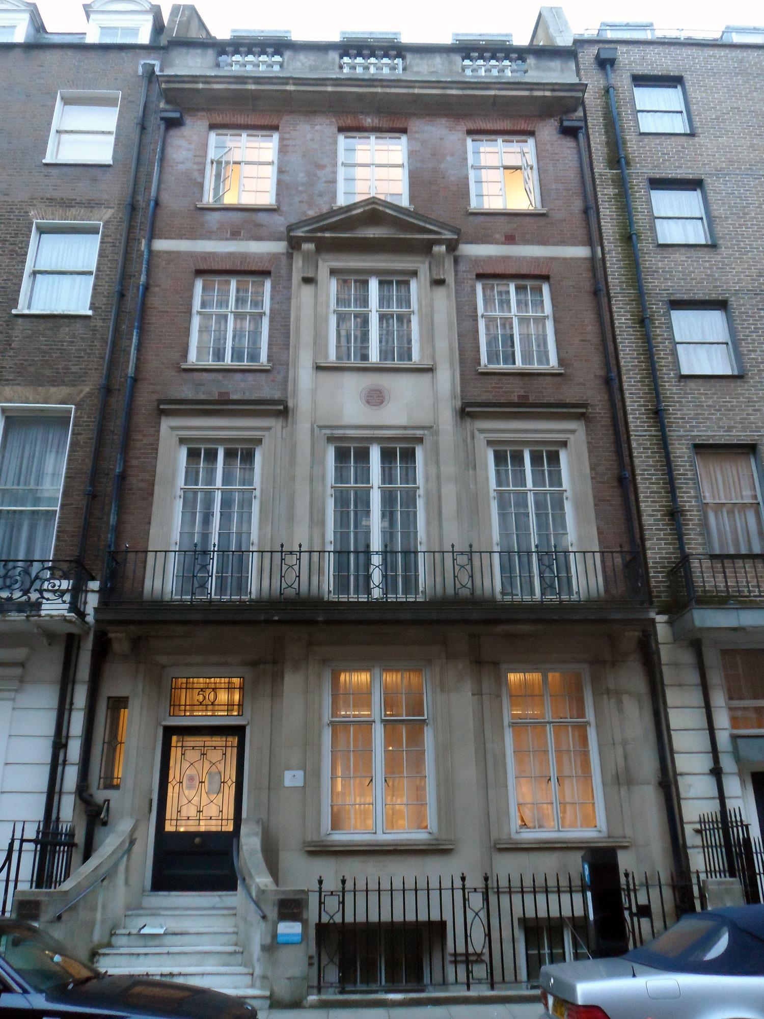 ELIZABETH BARRETT BARRETT POETESS AFTERWARDS WIFE OF ROBERT BROWNING LIVED HERE 1838-1846 - 50 Wimpole Street, Marylebone, London W1G 8SQ, City of Westminster.